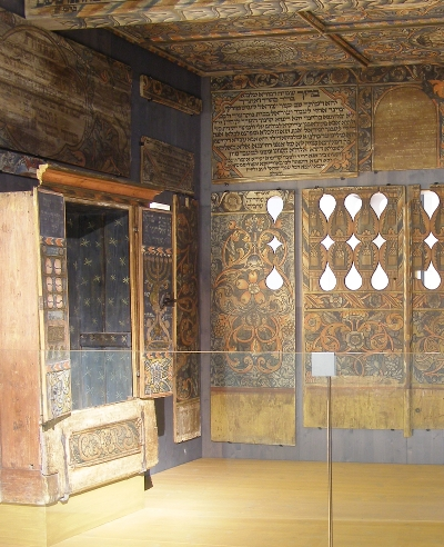 Synagogue wood paneling. Paintings by Eliezer Sussmann, with torah shrine, in the Hällisch-Fränkisches Museum in Schwäbisch Hall